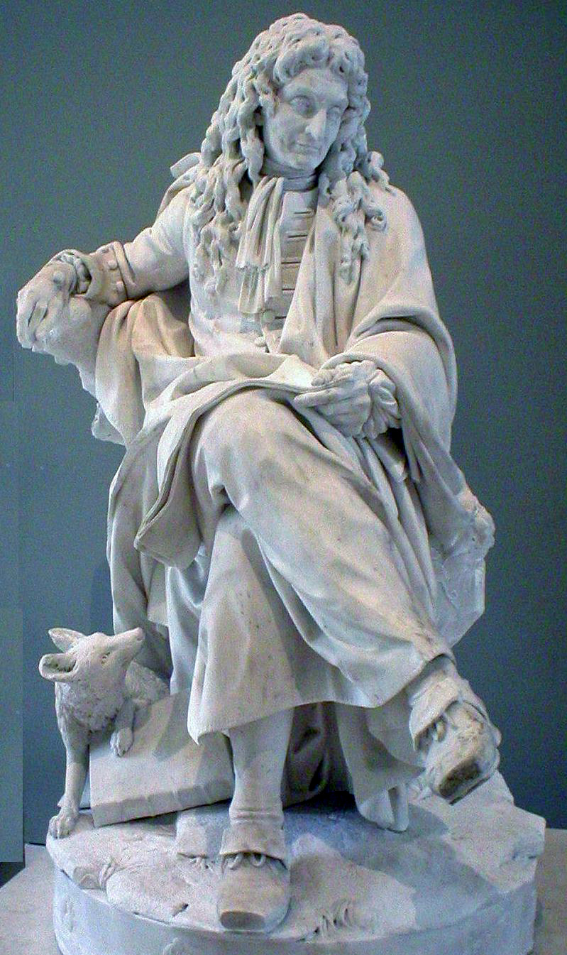 The writer is representing holding a folio with the first verses of The Fox and the Grapes. Marble, exhibited at the Salon of 1785.